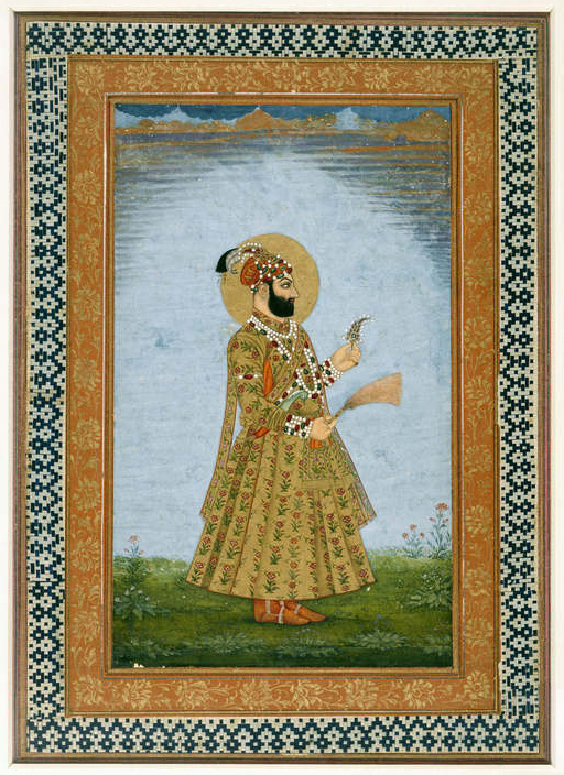 The emperor Farrukh Siyar, facing right, stands in a flowery meadow holding a 'sarpesh' and a 'chauri'. Opaque watercolour. Mughal/18th century style. Gouache with gold, c.1715* (BL)